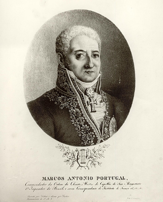 Marcos Portugal (Marco Portogallo), Portuguese classical composer, c. 1820—1824.